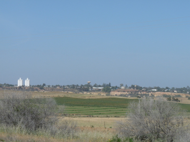 The view of Waikerie looking west from Holder. The grain silos and water tower are visible